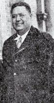 Two Samoan high chiefs and their wives shown being entertained by the Mayor, Ernest Herbert Andrews (1873-1961). In the group from left to right are: the Town Clerk (H.S. Feast), Mrs Feast, Mrs Melville Edwin Lyons, the Mayor, the Hon. Tamasese, Mrs Tamasese, Mrs Malietoa, the Hon. Malietoa, and the Deputy-Mayor (Melville Edwin Lyons).